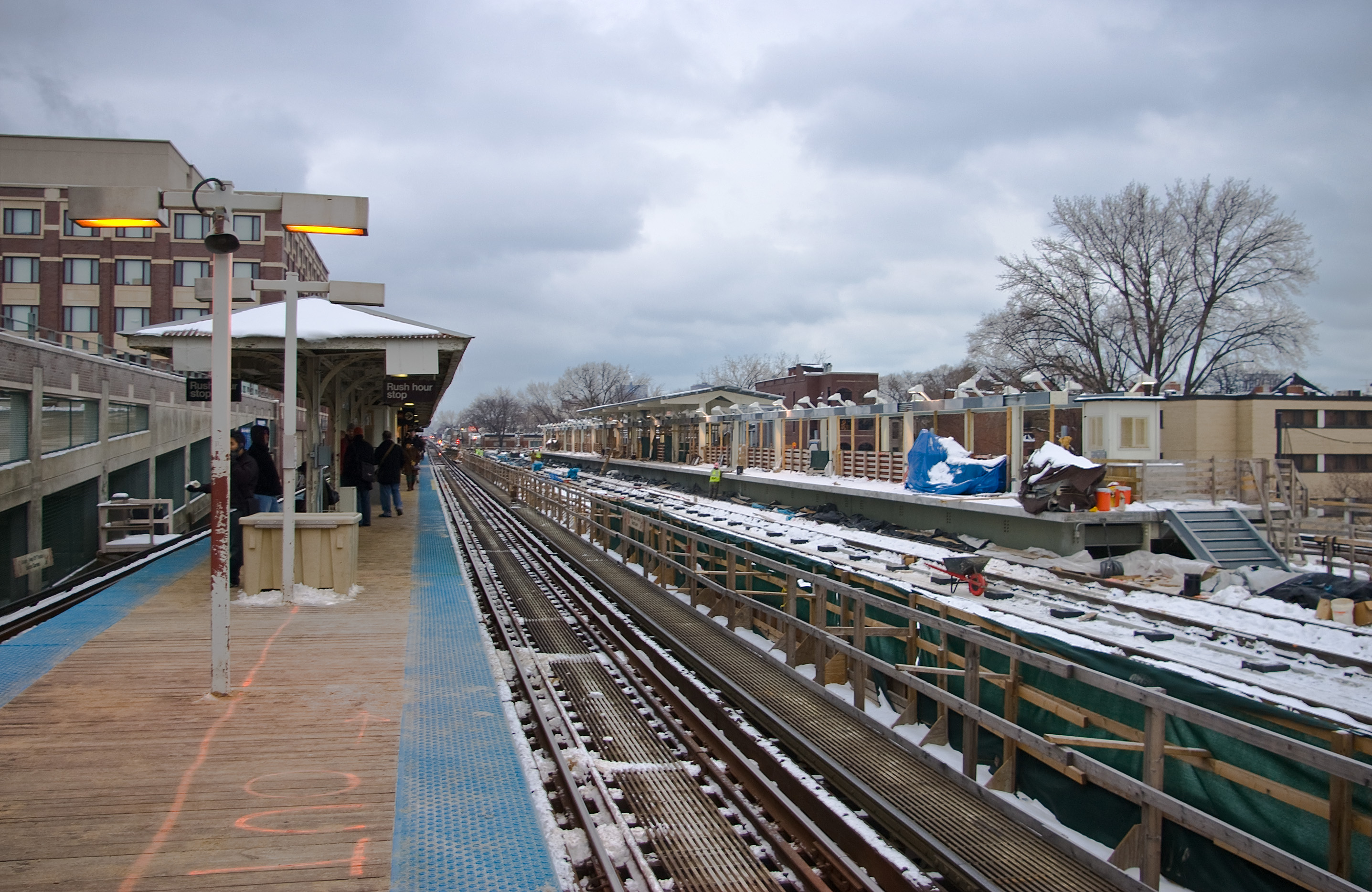 Fullerton 'L' station on the CTA Red, Brown, and Purple lines in Chicago, Illinois. The station is mid-way through reconstruction, the original south-bound island platform still stands (left) whilst the new northbound island platform is being constructed (right).